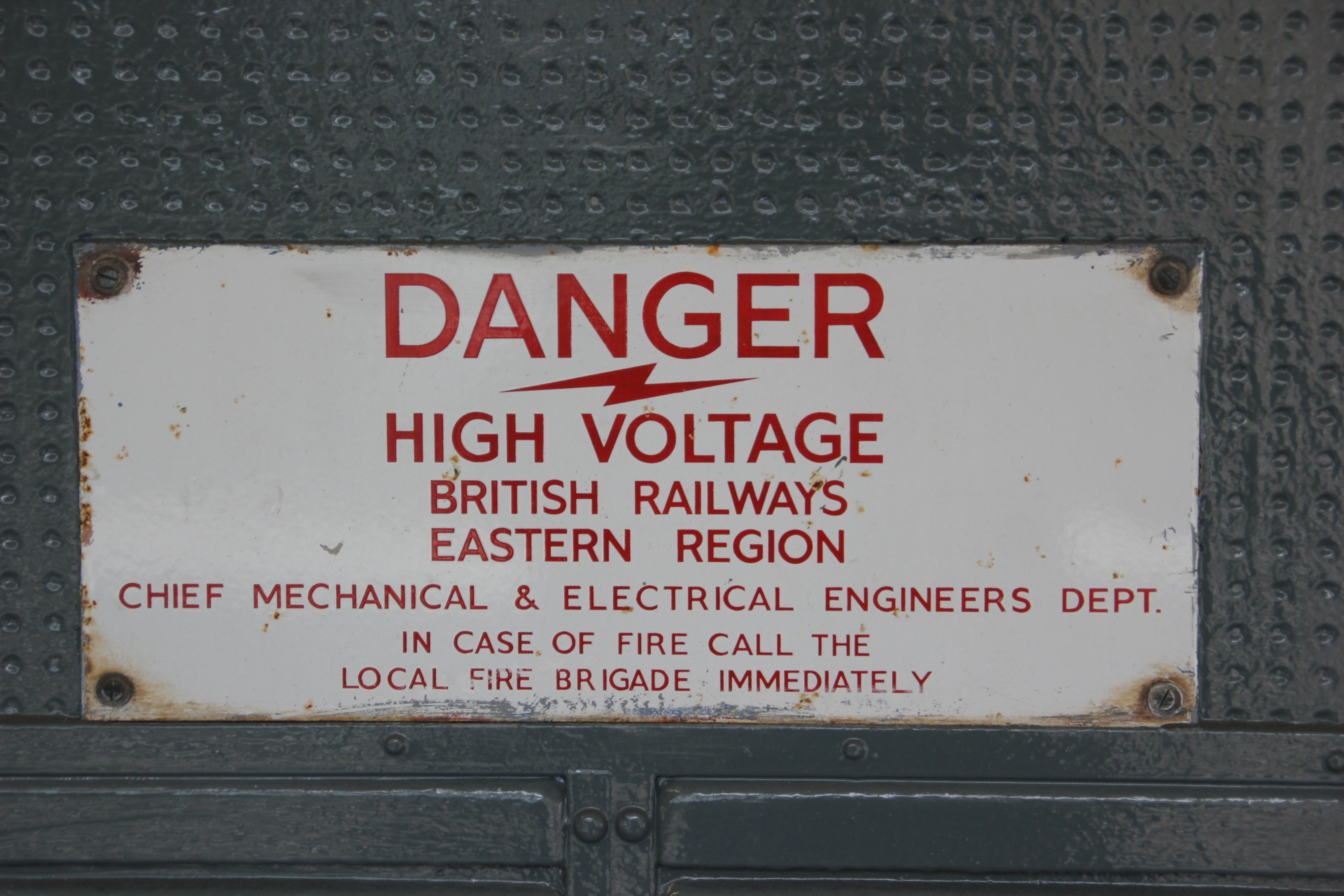 A high voltage warning sign issued by British Railways Eastern Region.